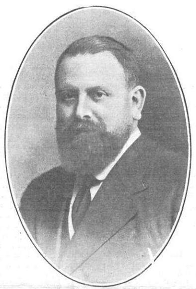 Manuel Senante